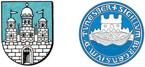 TBG Byvåpen